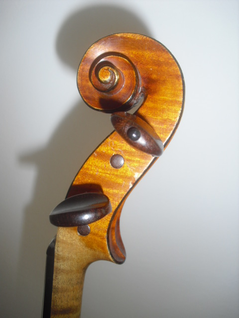 Charles Jean Baptiste Collin-Mezin,Violin 1890